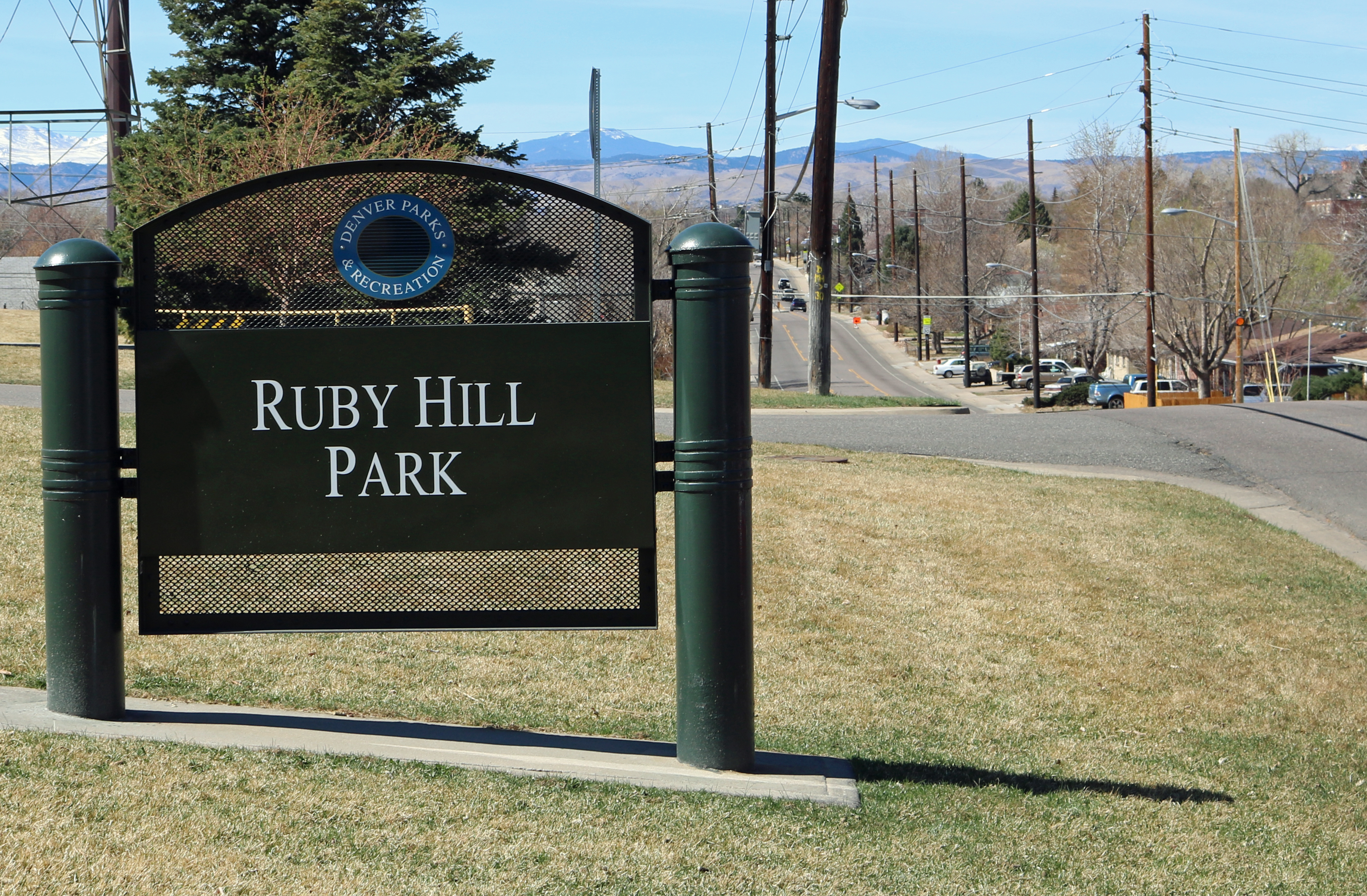 The sign for Ruby Hill Park in the Ruby Hill Neighborhood of Denver, Colorado. The view is towards the west along West Florida Avenue.